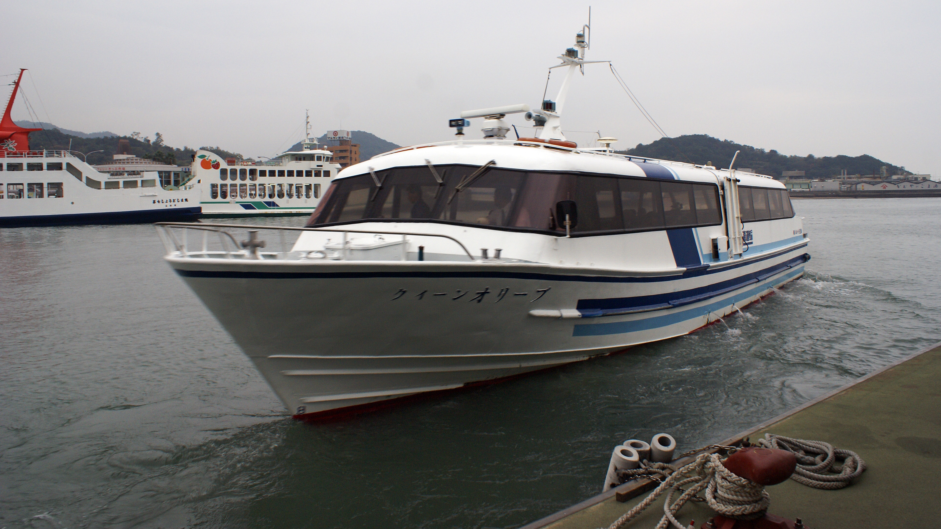 "Queen Olive" who anchors at Tonosho port in Shodoshima island Kagawa Prefecture, Japan)